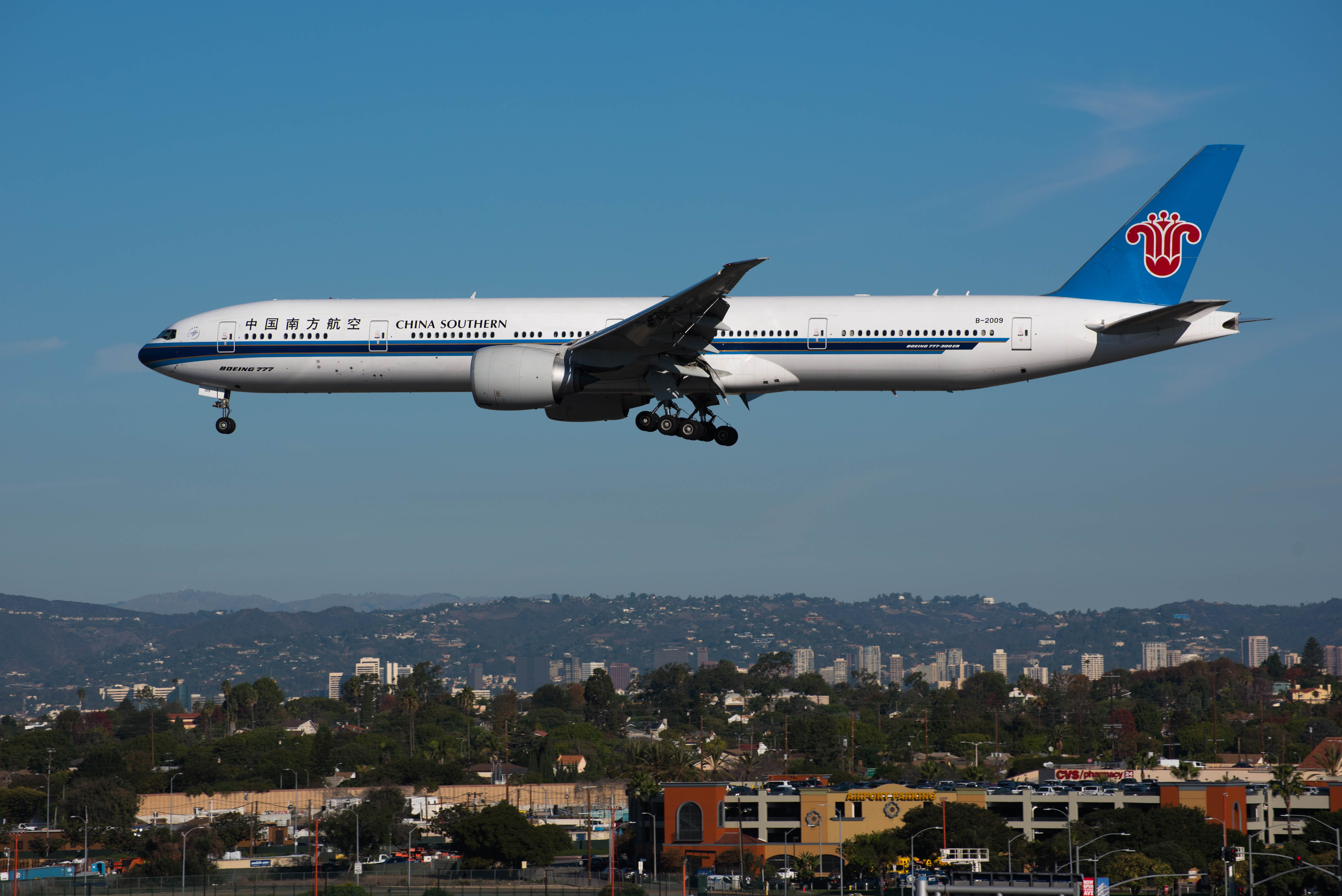 China Southern Airlines Boeing 777 at Los Angeles International Airport